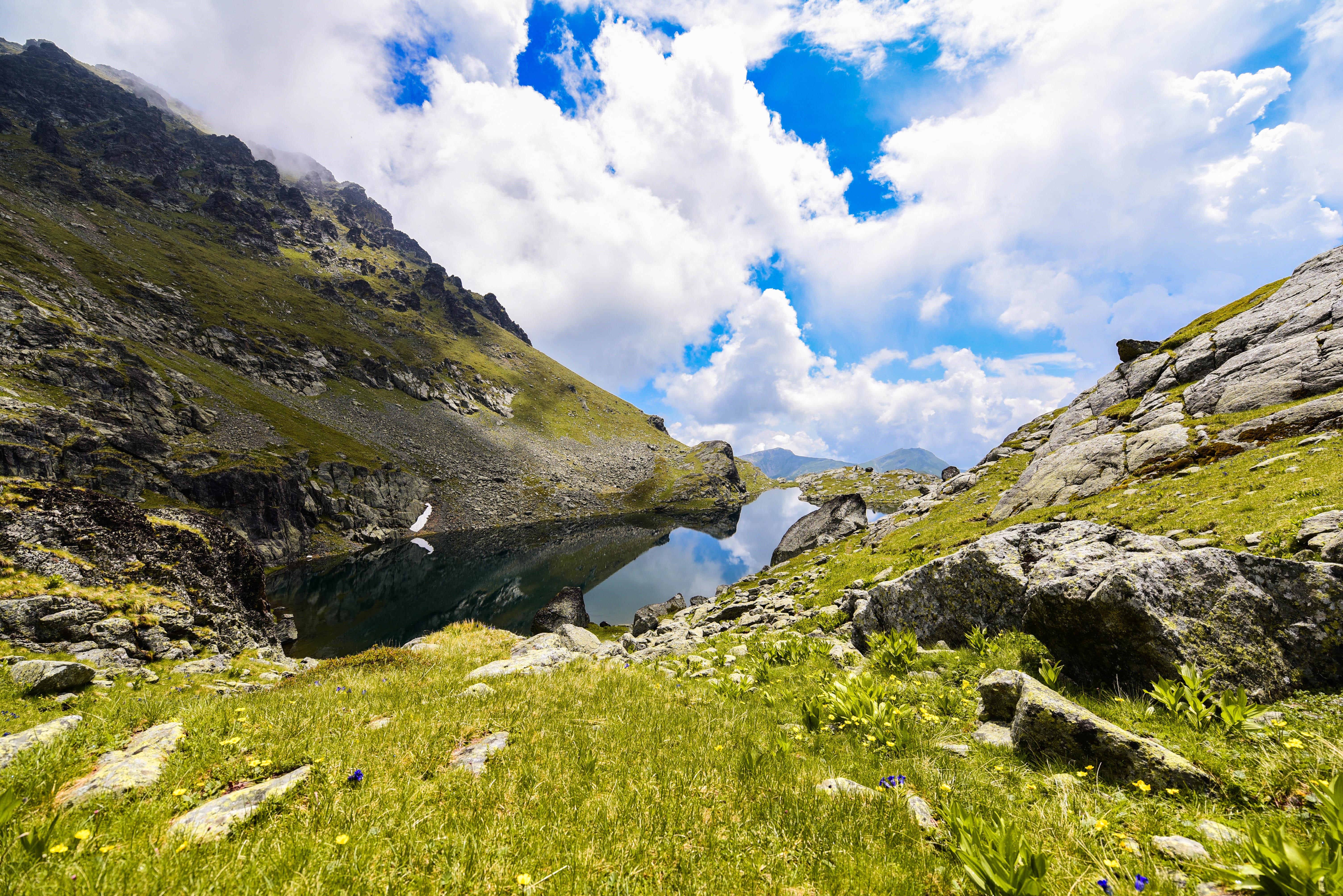 Gjeravica Lake, Kosovo